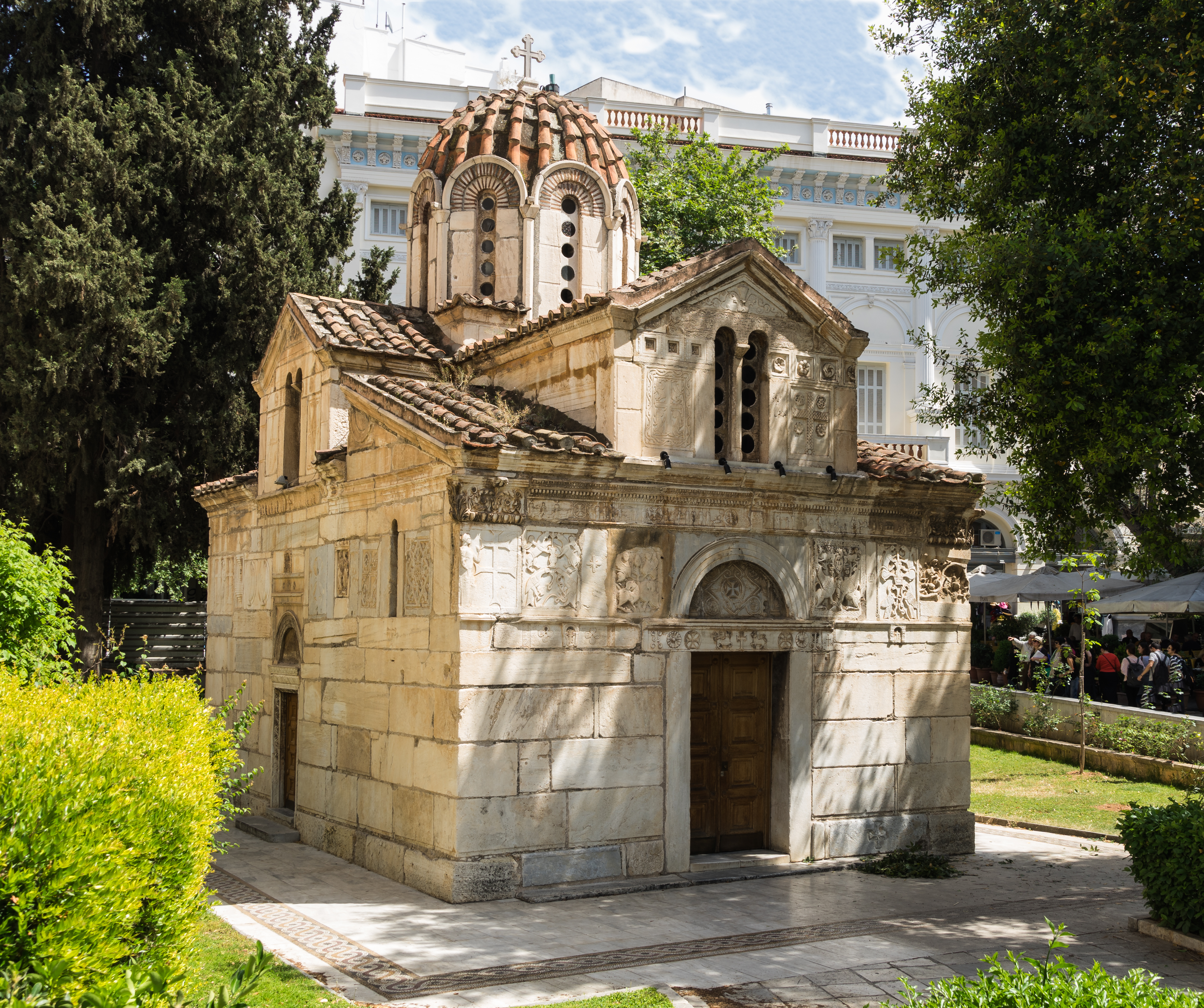 Church of Theotokos Gorgoepikoos and Ayios Eleytherios, Athens, Greece.